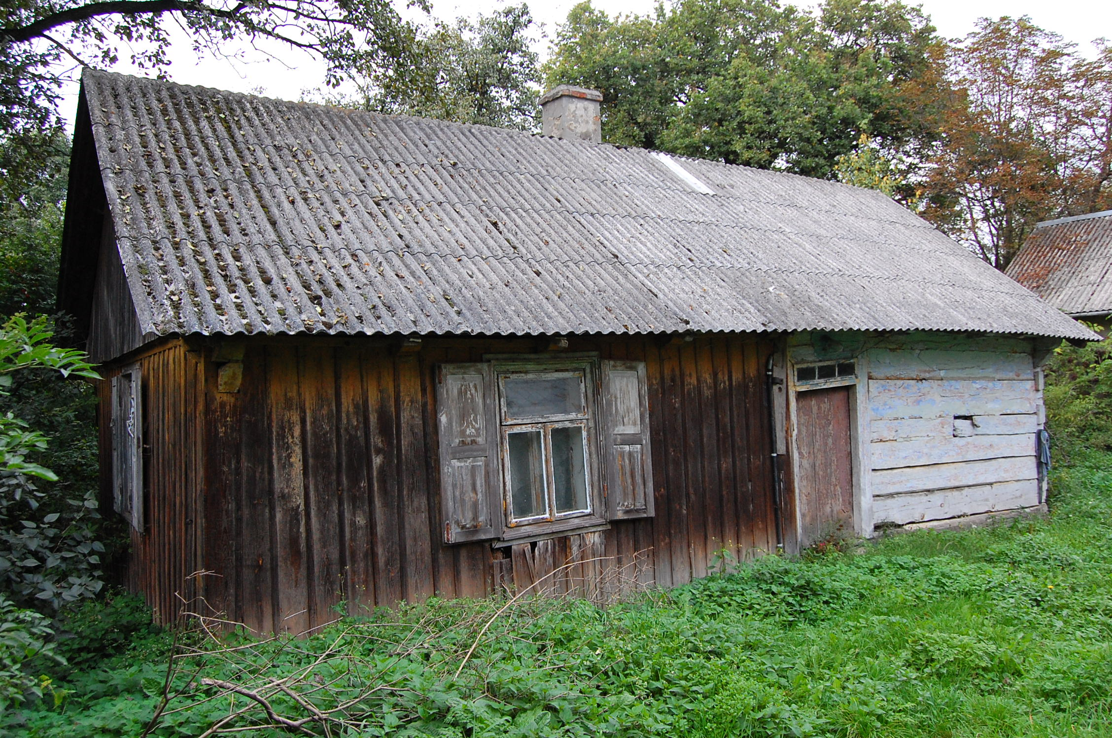 One of the oldest house in Konopnica